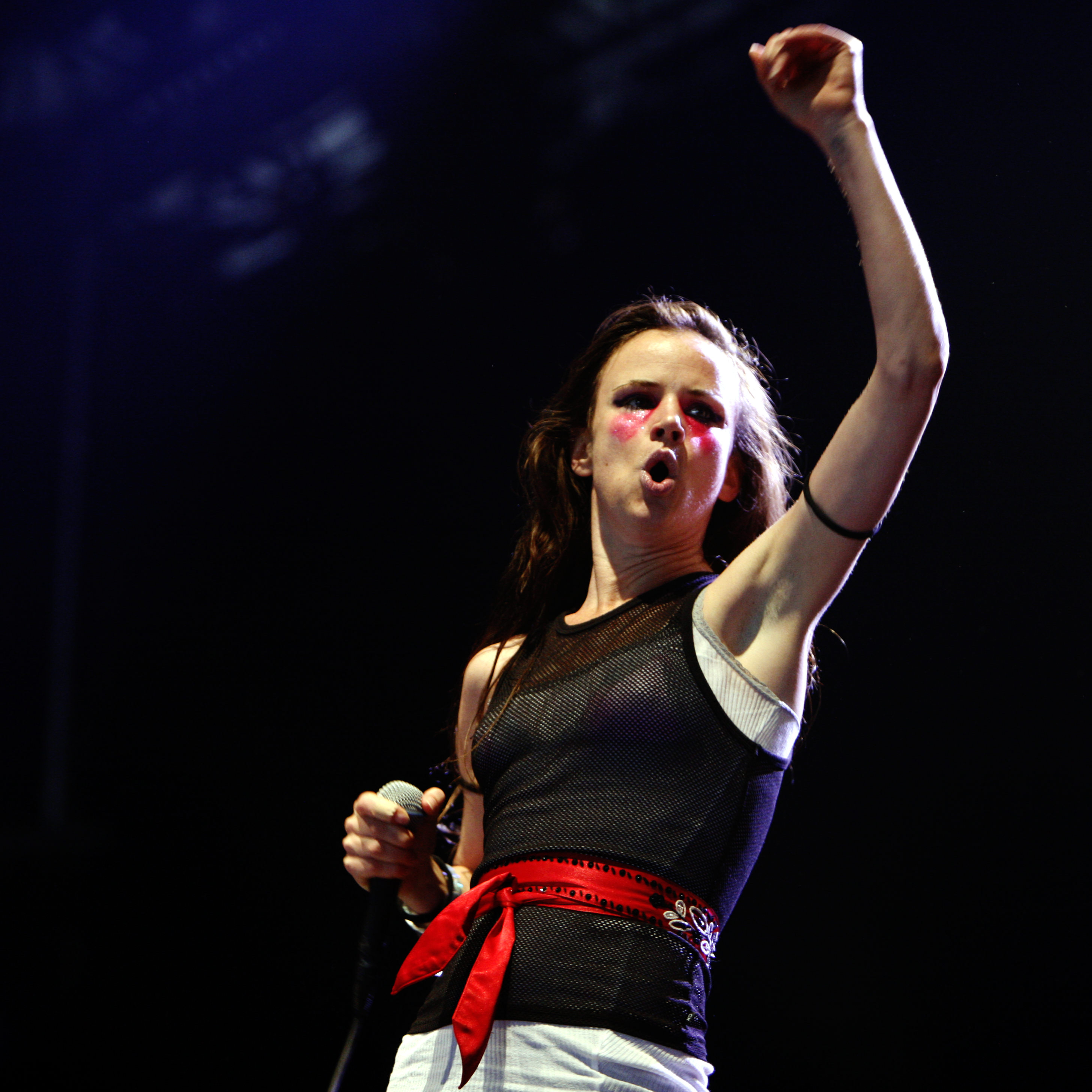 Juliette and the Licks at the Eurockéennes of 2007